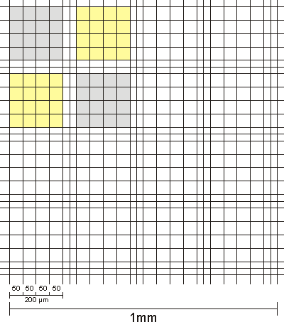 Schematic draft of the center square of Neubauer (similar to a Thoma-chamber) counting chamber for cells